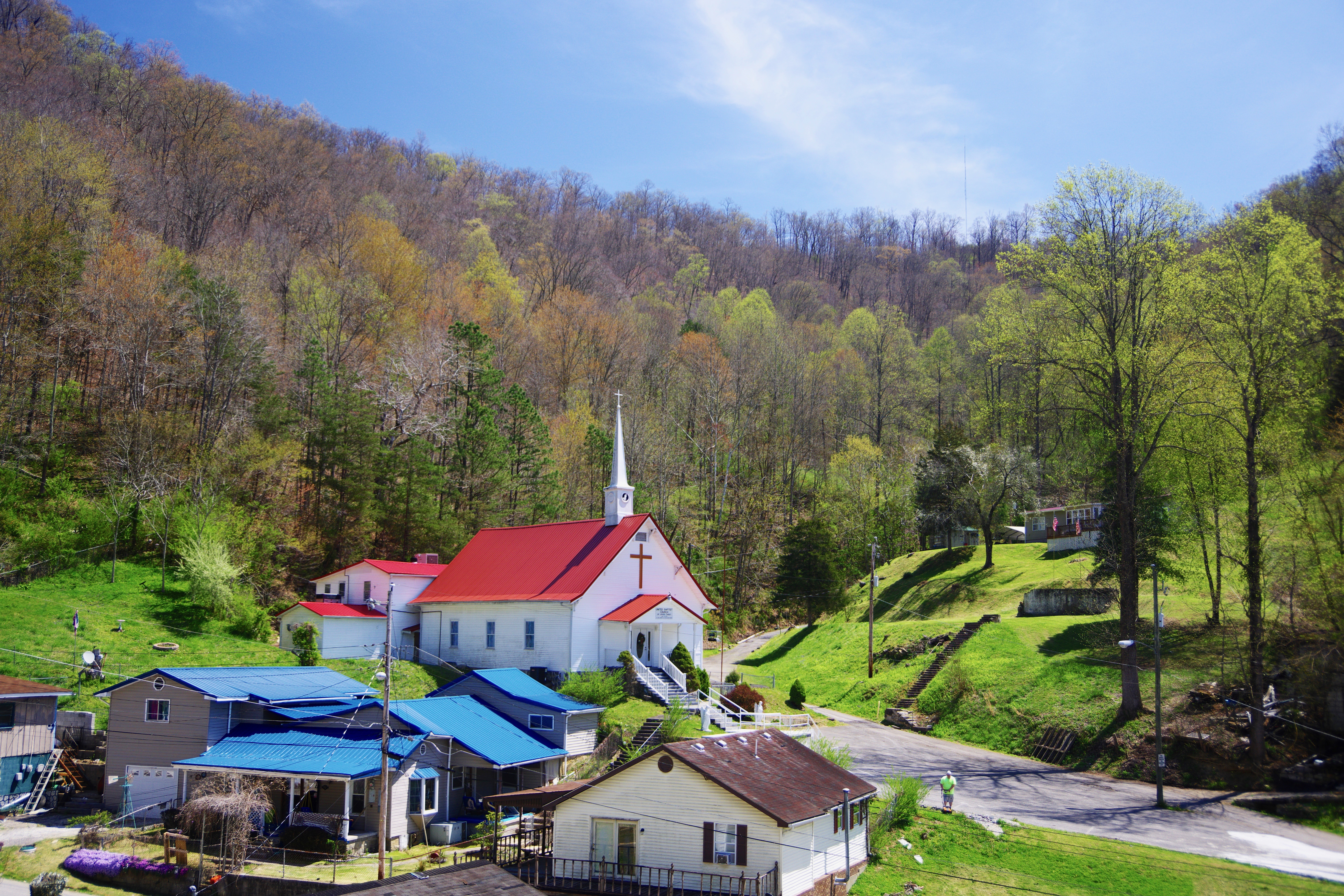 The United Baptist Church of Jesus Christ and other buildings in Kermit, West Virginia, United States.